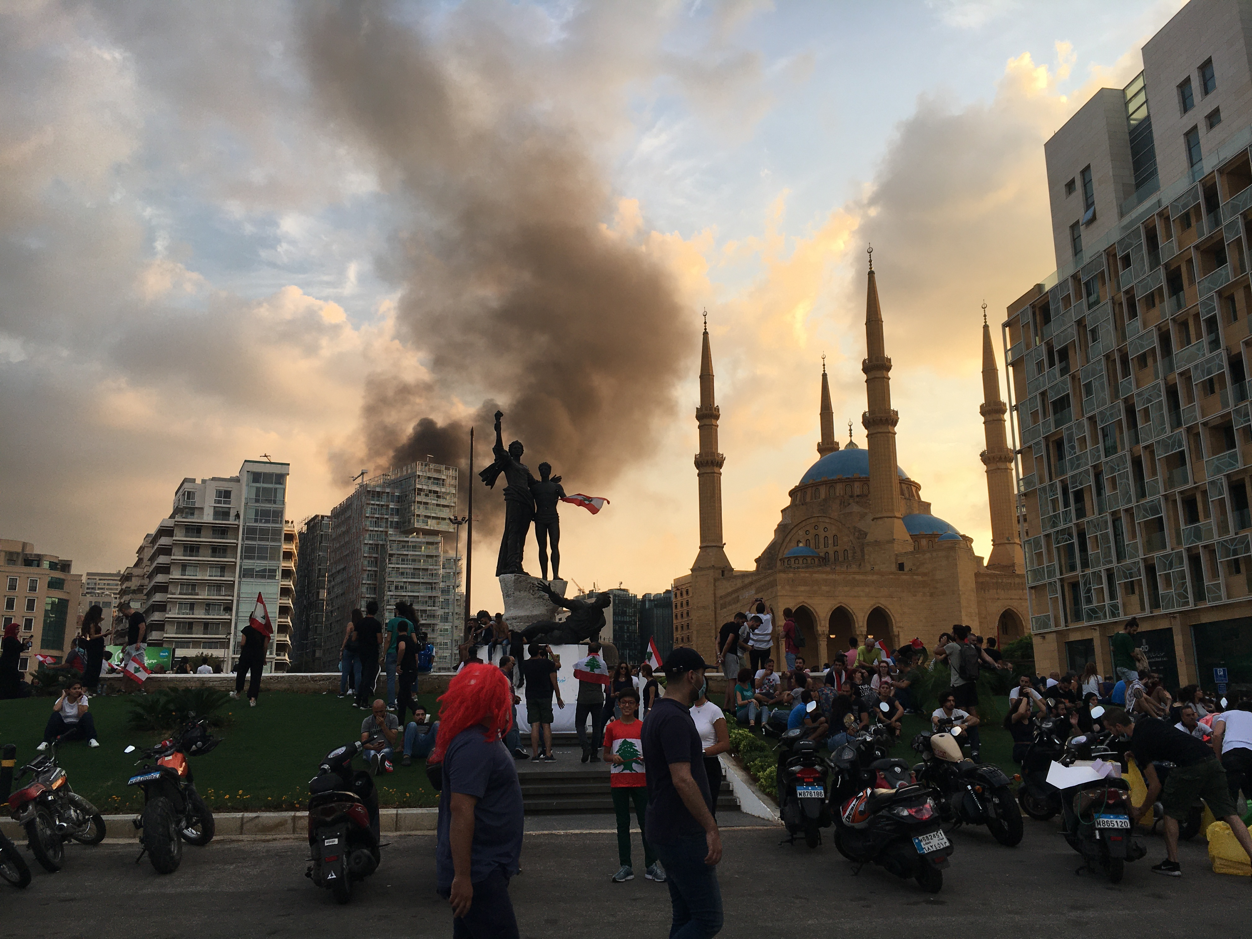 Taken during second day of protests